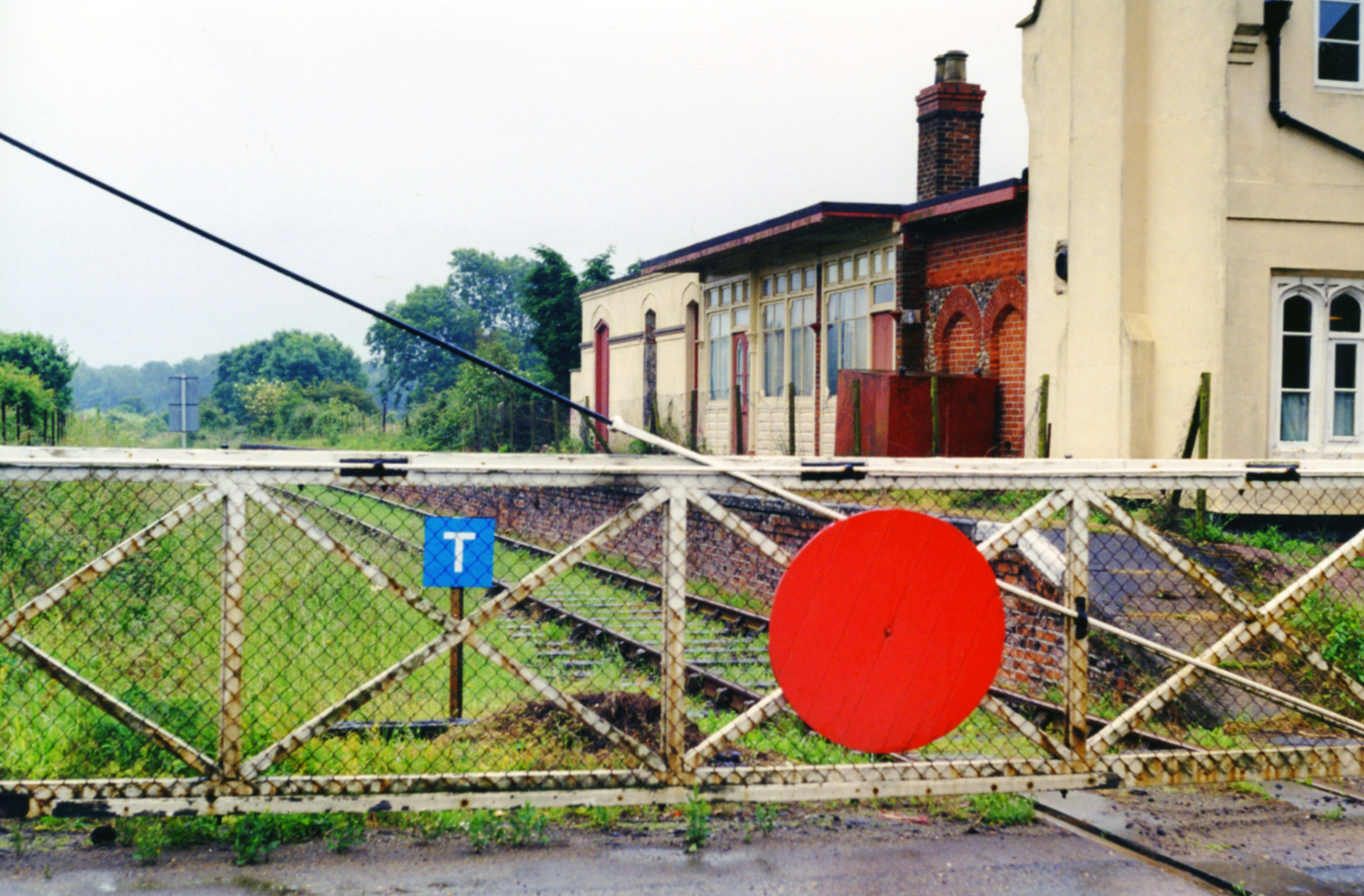 Kimberley Park station, 1998View southward, towards Wymondham: ex-GER Wymondham = Dereham - King's Lynn line, which had been closed by BR since 30/6/89 (passengers 6/10/69). After occasional use and a complex series of exchanges with preservation bodies, at the time of this photograph in 6/98, the line here, past this station*, had just been bought back from BR by the Mid-Norfolk Preservation Trust, the line here having been restored in 7/97; passenger services by the MNPS between Wymondham and Dereham were restored in 5/99. [Open to correction?]